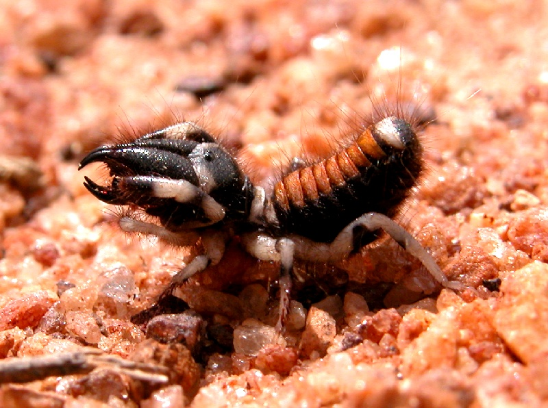 Wind Scorpion (Solifugae) in Bangalore, India.